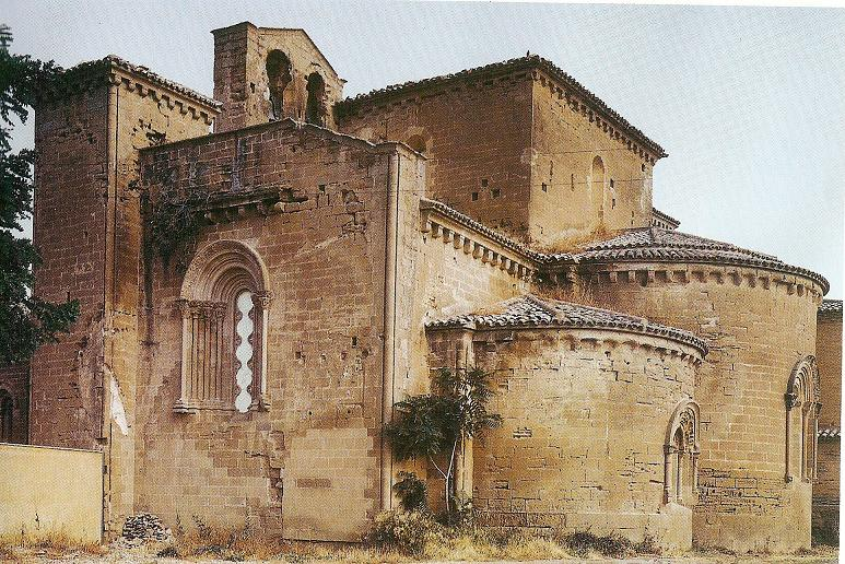 Monastery of Sigena. (Spain)